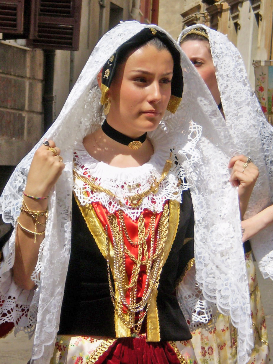 folk sardinia